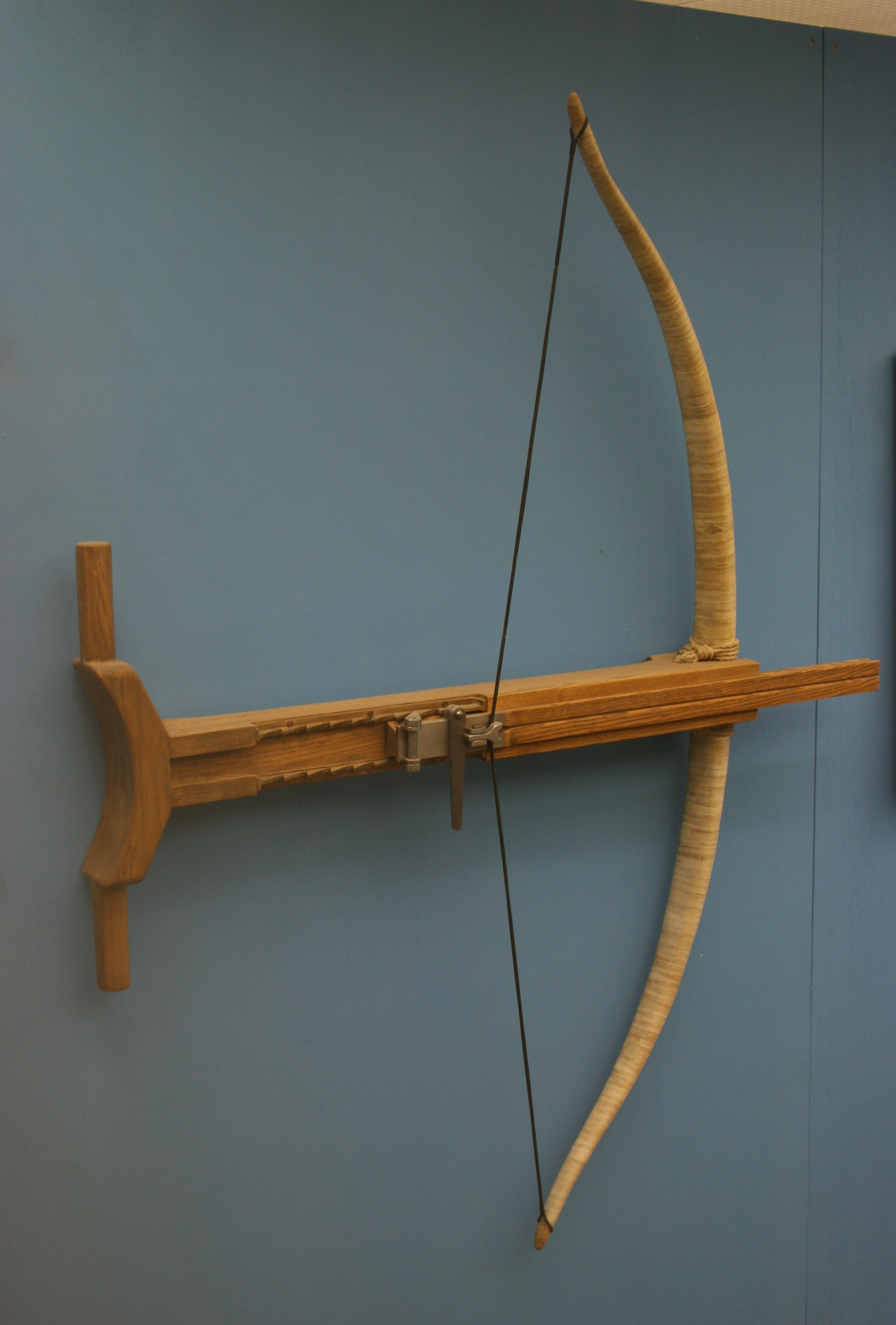 Reconstruction of a Gastraphetes, an ancient Greek crossbow, in the Saalburgmuseum at Bad Homburg v. d. Höhe, Hesse, Germany.